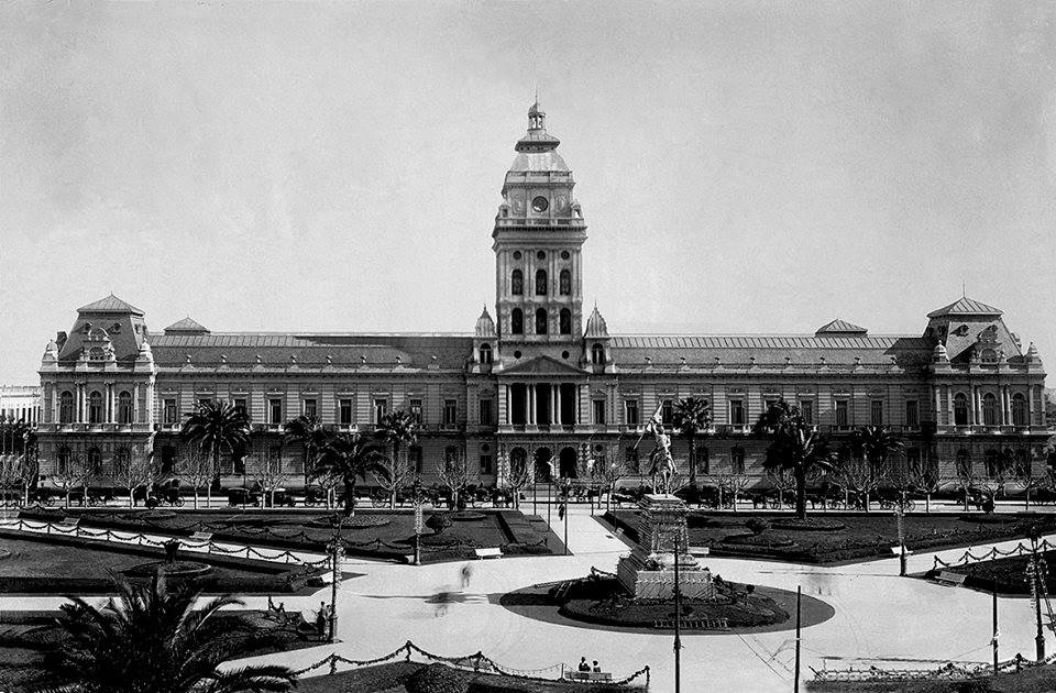 The Palace of Justice of Rosario on Moreno street, in front of Plaza San Martín. The buidling is currently occupied by "Facultad de Derecho" (Law School) of National University of Rosario.